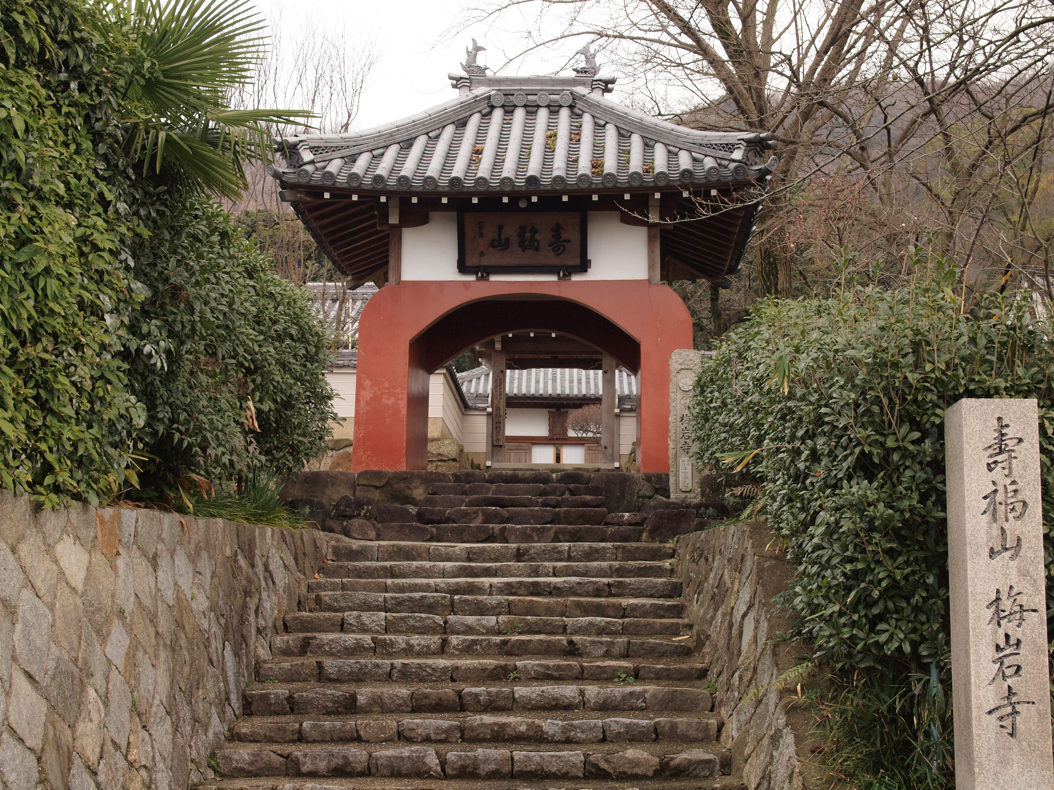 Baigan-ji (Temple) in Yao, Osaka